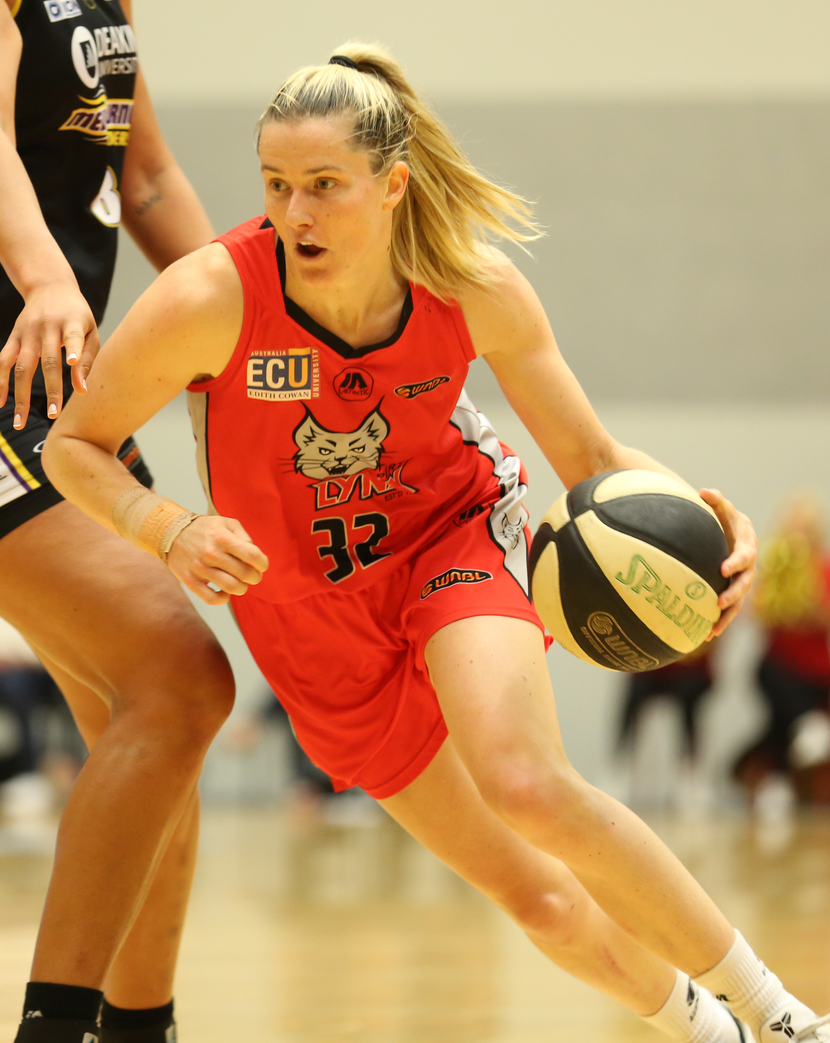 Sami Whitcomb in action for the Perth Lynx in January 2018.